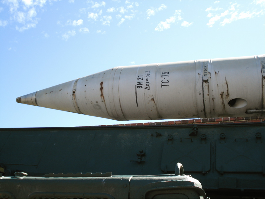 Soviet FROG-7B (Luna-M) missile system, displayed in Hämeenlinna Artillery Museum. This was a tactical weapon, with a range from 10 to 65 km and a 450 kg warhead, conventional, chemical or nuclear. Photo taken on June 18, 2006. Source: Photo by me, User:Balcer.